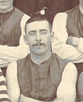 Photograph of Harry Knell in 1901